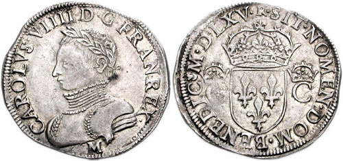 France, Charles IX of France. 1560-1574. AR Teston (31mm, 9.45 g, 10h). Toulouse mint. CAROLVS . VIIII . D . G . FRAN . REX ., laureate and cuirassed bust left; M below . SIT . NOMEN . DOM . BENEDIC (heart-in-crescent) M.D.LXV ., crowned arms flanked by crowned C's; small R above. Dupelssy 1063; Lafaurie 895; Ciani 1356-1358.